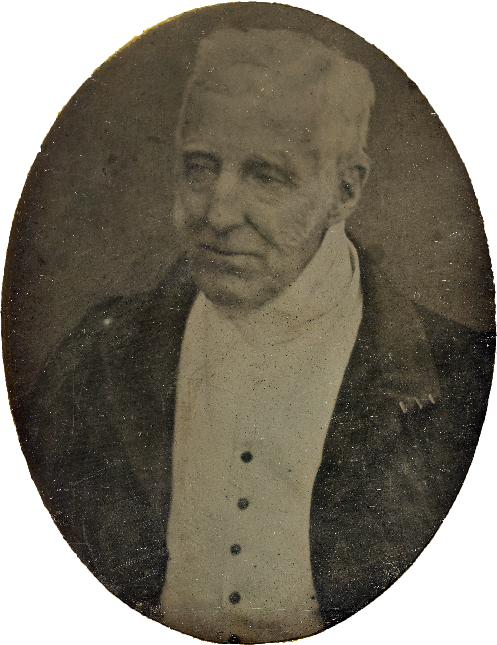 Portrait of the Duke of Wellington, 1844. Daguerreotype, 7.8 × 6.4 cm (3 1/16 × 2 1/2 in.)